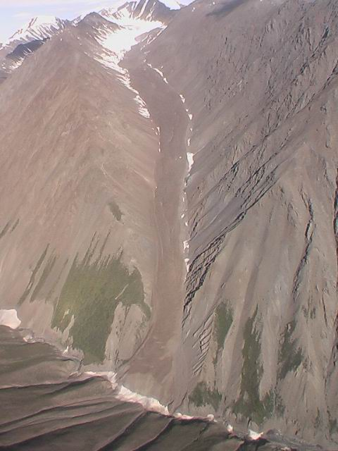 An unusually long rock glacier in the Alaskan range.